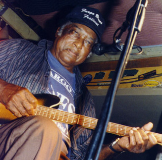 Blues musician R.L. Burnside at the Double Door Inn in Charlotte, N.C. (1998)